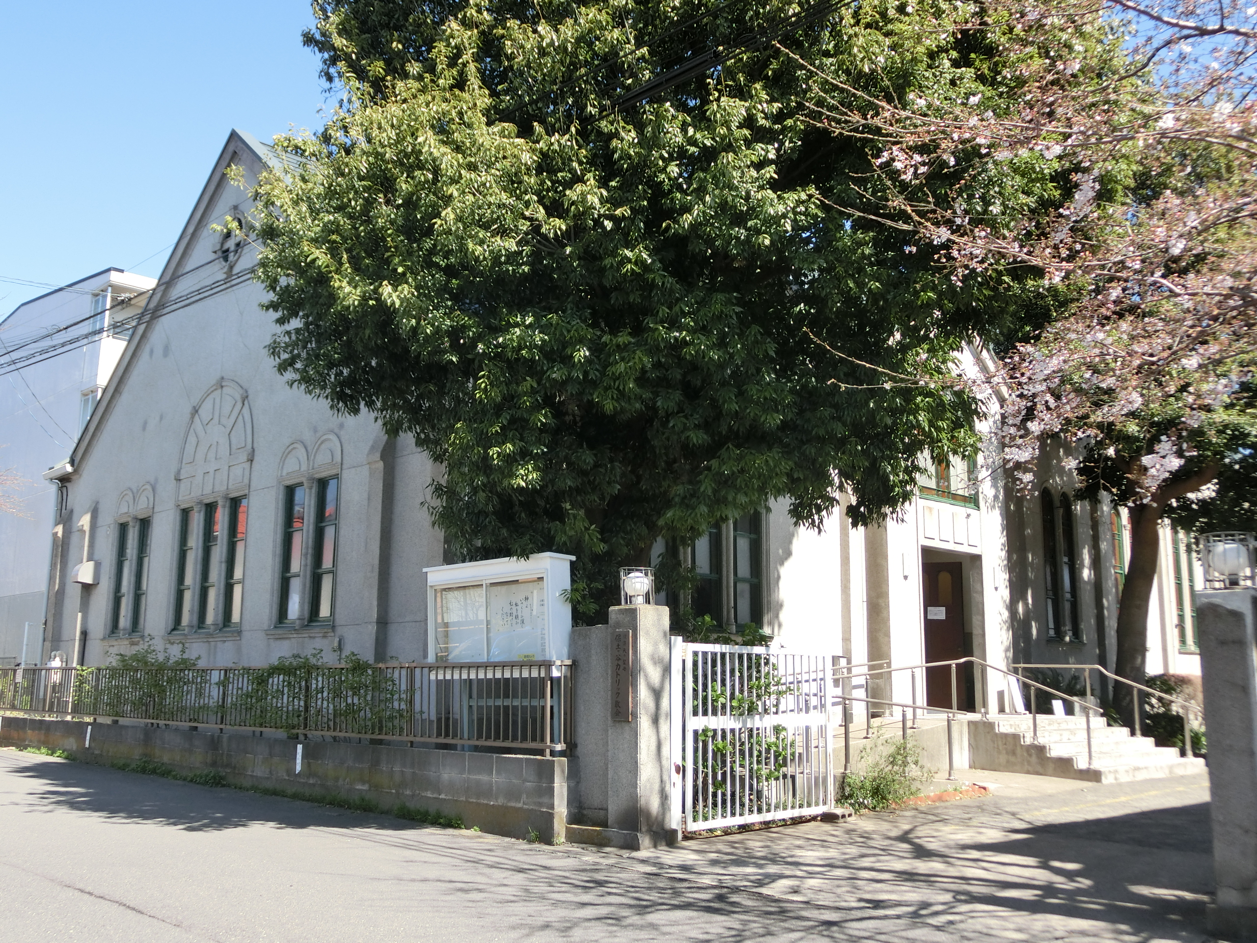 Hodogaya Catholic Church